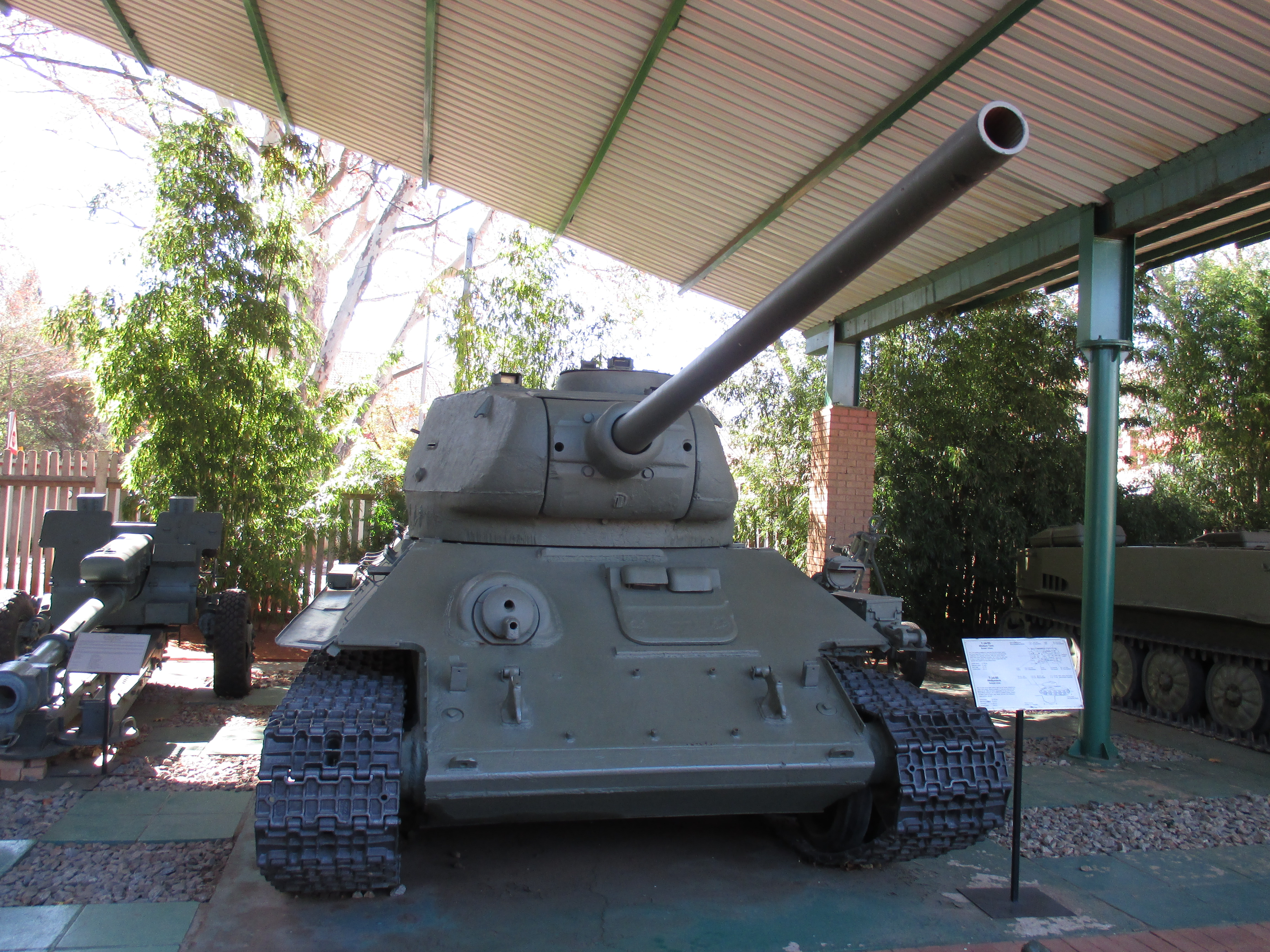 Description: Former Angolan T-34-85 at the South African National Museum of Military History, Johannesburg.